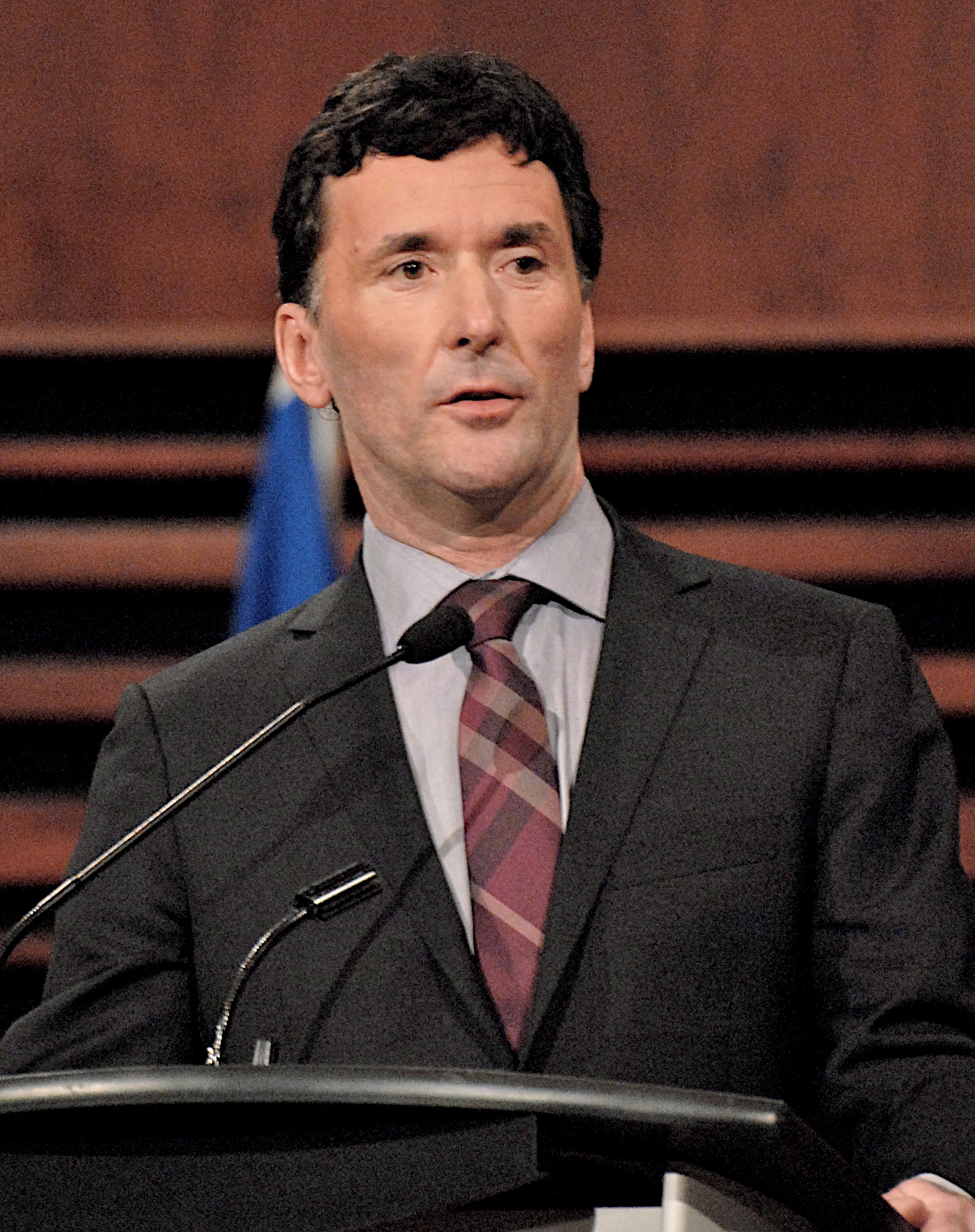 Paul Dewar, New Democratic Member of Parliament for the electoral district of Ottawa Centre, during the debate of the candidates to the leadership of the New Democratic Party of Canada, February 12, 2012 in Québec